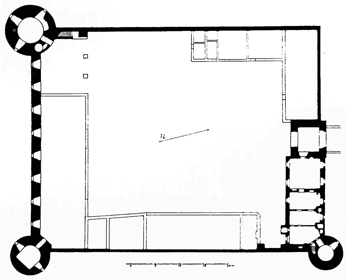 Floorplan of Laurenzberg Castle in Eschweiler